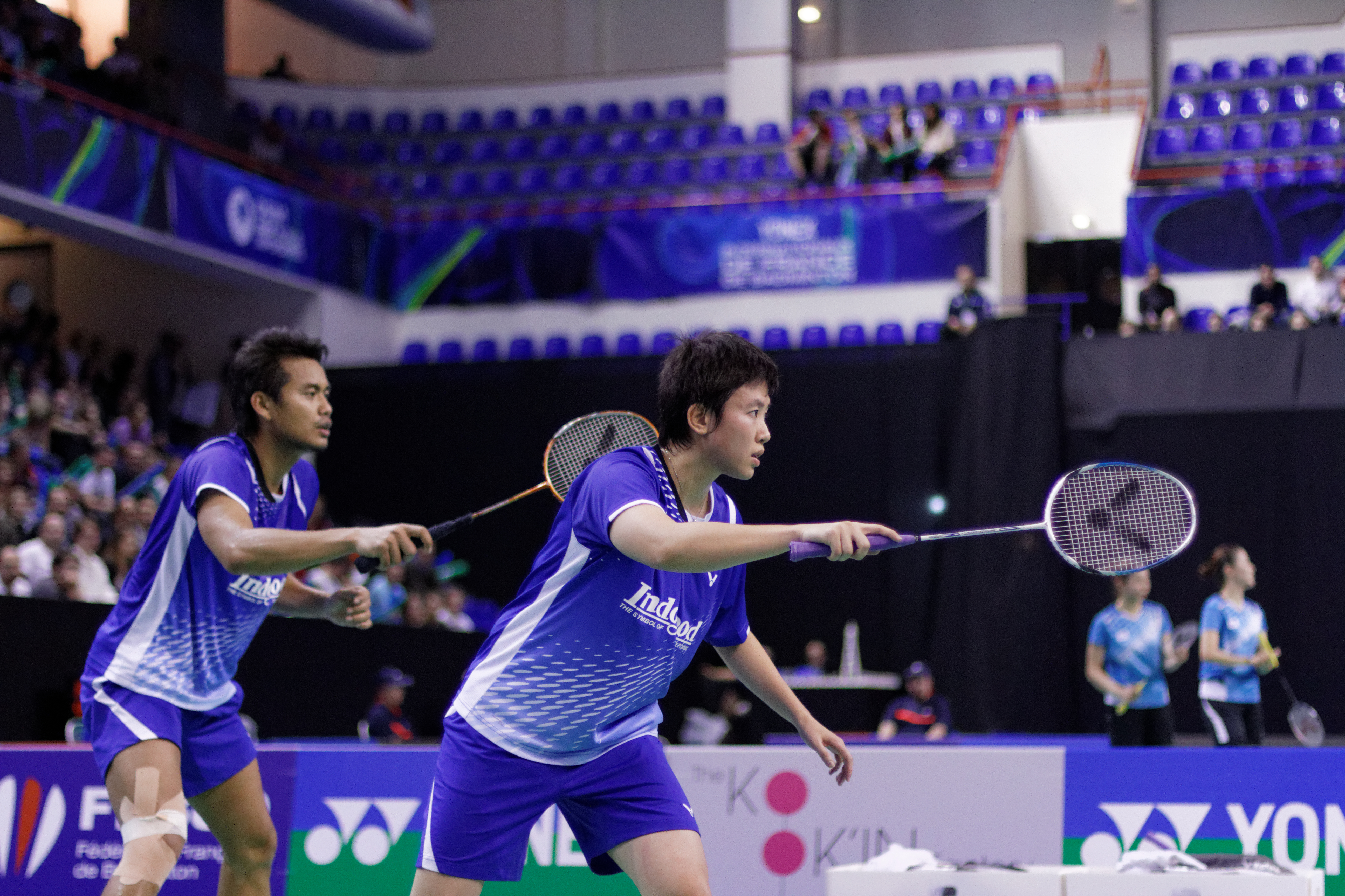 2013 French open. Mixed's doubles quarterfinal. Tontowi Ahmad - Liliyana Natsir vs Chris Adcock - Gabrielle White.